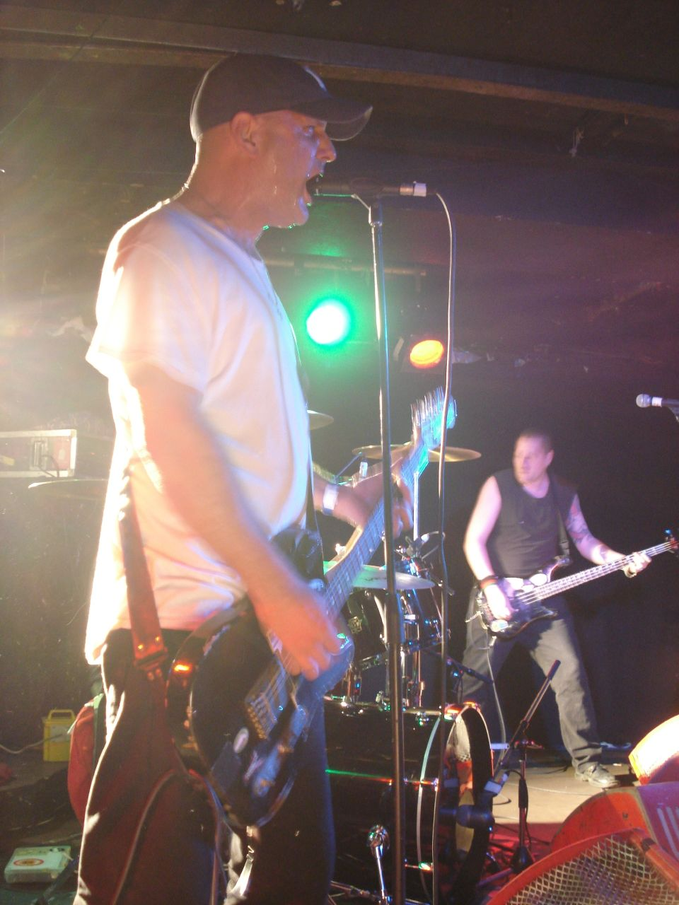 Unsane